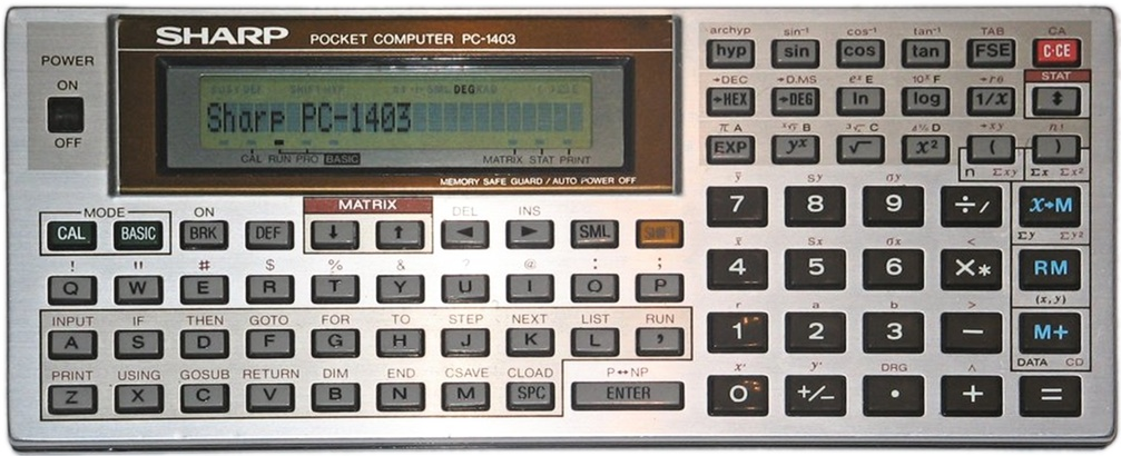 Sharp PC-1403